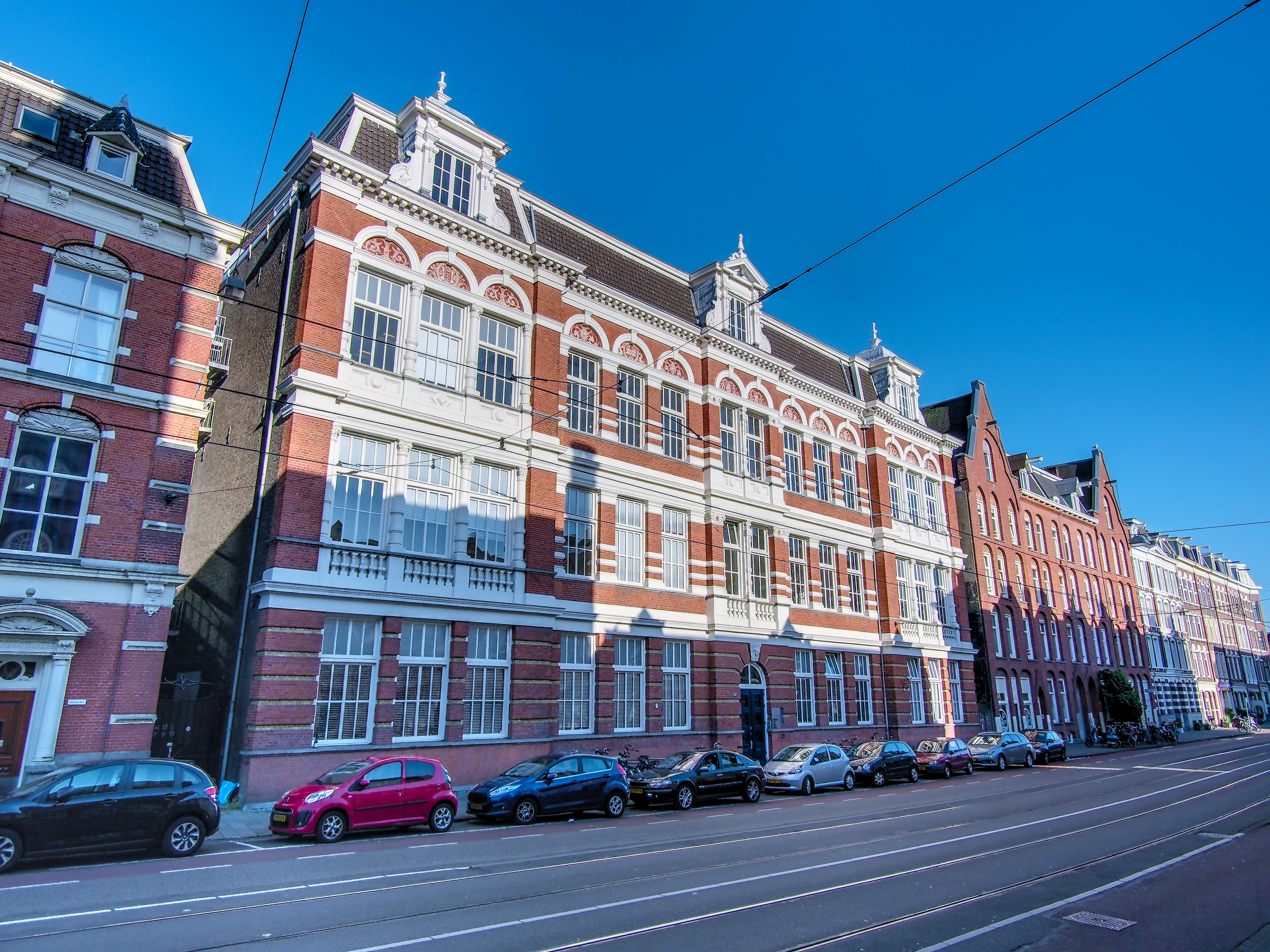 Photographed in Amsterdam.